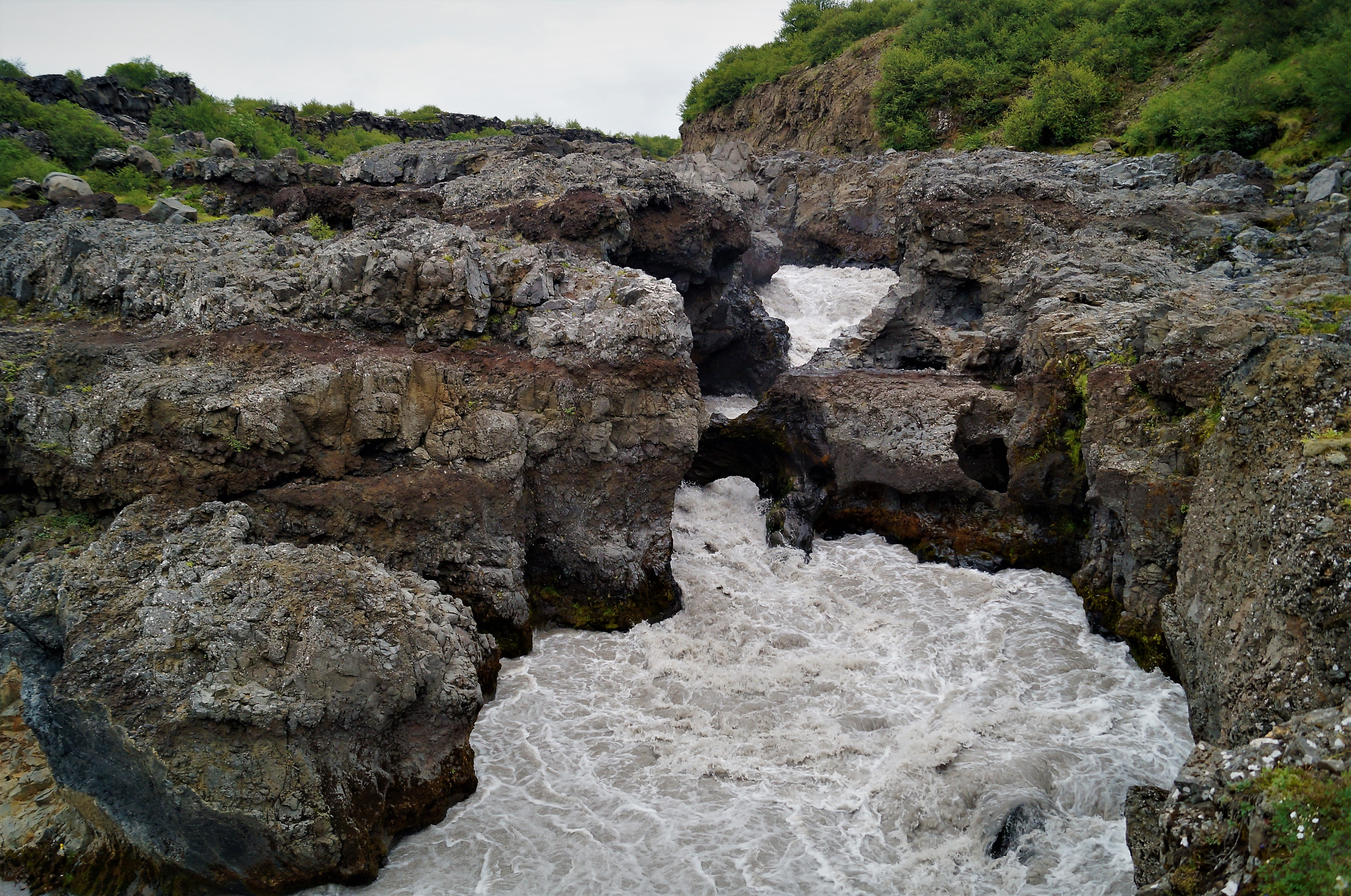 Barnafoss closer view in July, 2019